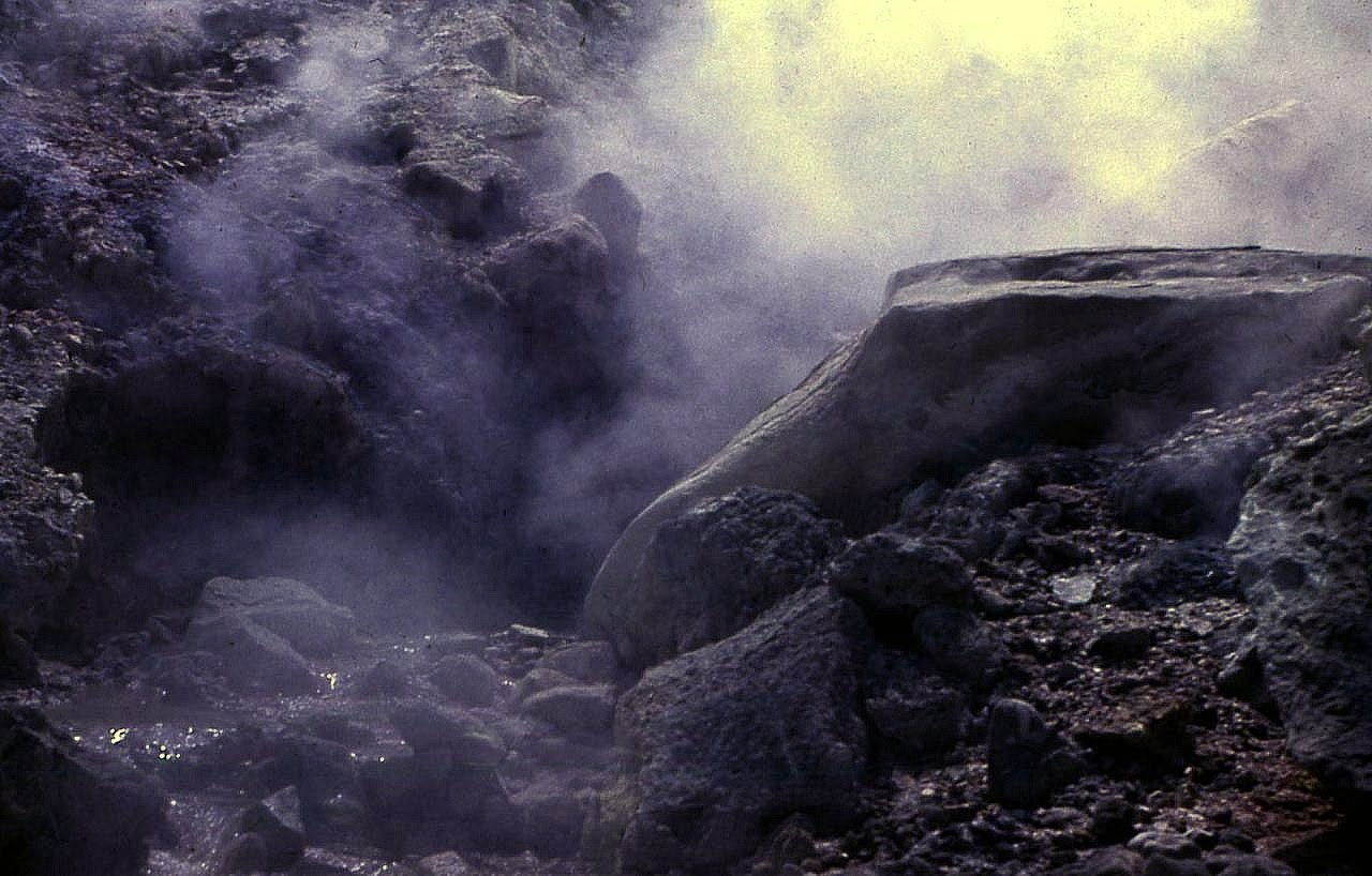 Mendeleyev Vulcano, Kunashir Island